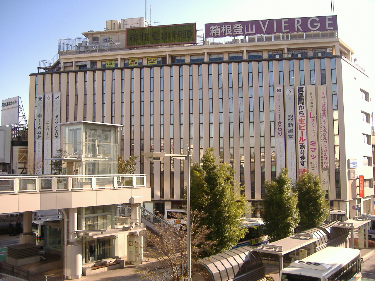 Shoppinmall "Hakonetozan-VIERGE" (Odawara, Japan)